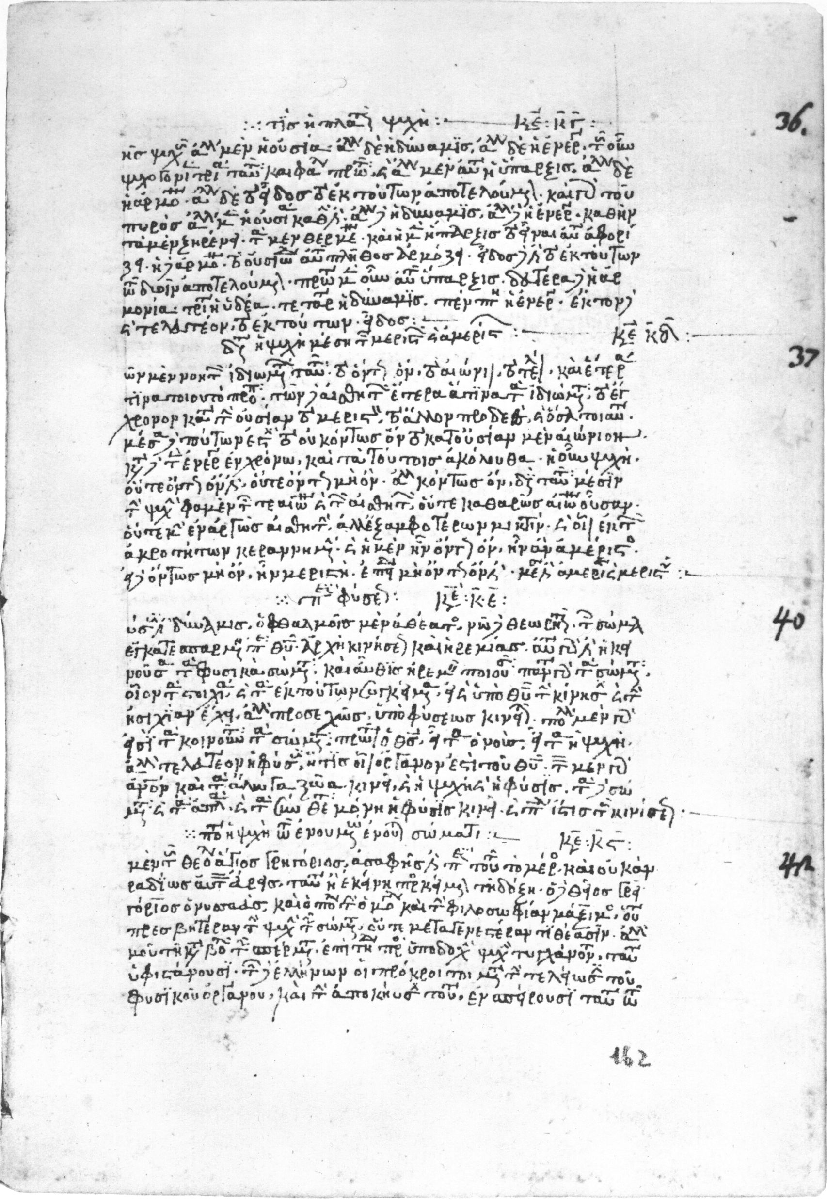 Michael Psellos, De omnifaria doctrina, in ms. Florence, Biblioteca Medicea Laurenziana, Plut. 86,15, fol. 162r.